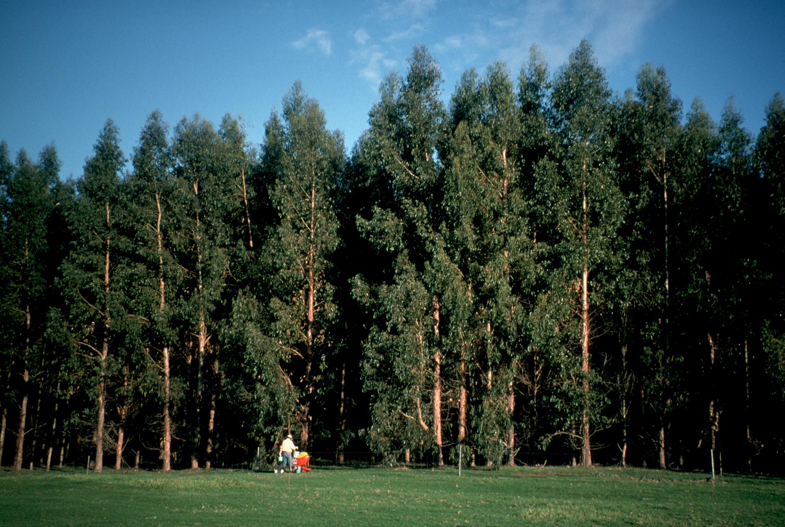 Eucalyptus globulus plantations growing on farmland in south-western Australia (8 years-old)